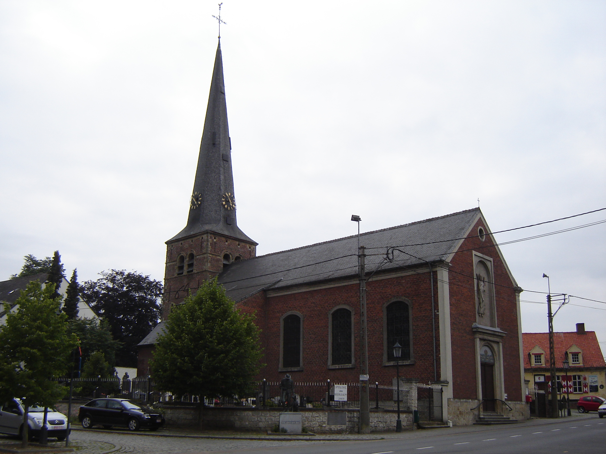 Church of Saint Andrew in Beerlegem, Zwalm, East Flanders, Belgium.